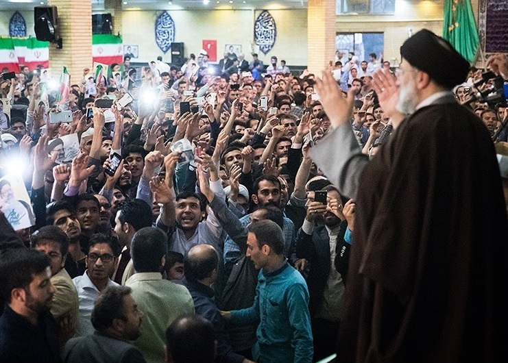 Ebrahim Raisi at Shahriar